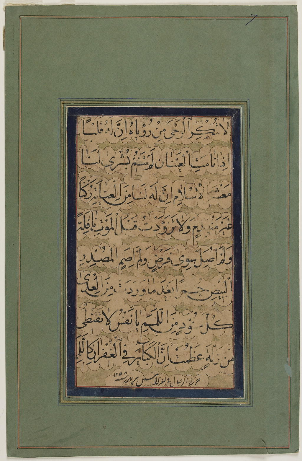 This fragment includes a poem in Arabic written in black naskh script on a beige paper. The words are fully vocalized in black and framed by cloud bands on a gold background. The text panel is framed in blue and pasted to a larger sheet of green paper backed by cardboard. On the final line, the calligrapher Vassal states that he has written the work (hararahu) on a Monday night during the months of the year (fi laylat al-ithnayn min shuhur sanah) 1258/1842. The calligrapher can be identified as the famous naskh-revivalist Vassal-i Shirazi الوصال الشيرازي (d. 1262/1846), the greatest Iranian calligrapher of the 19th century (see the numerous fragments by him published in Tavoosi 1987, 40 et seq). He seems to have executed this piece only four years before his death in 1262/1846.